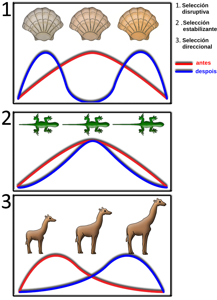 types of selection